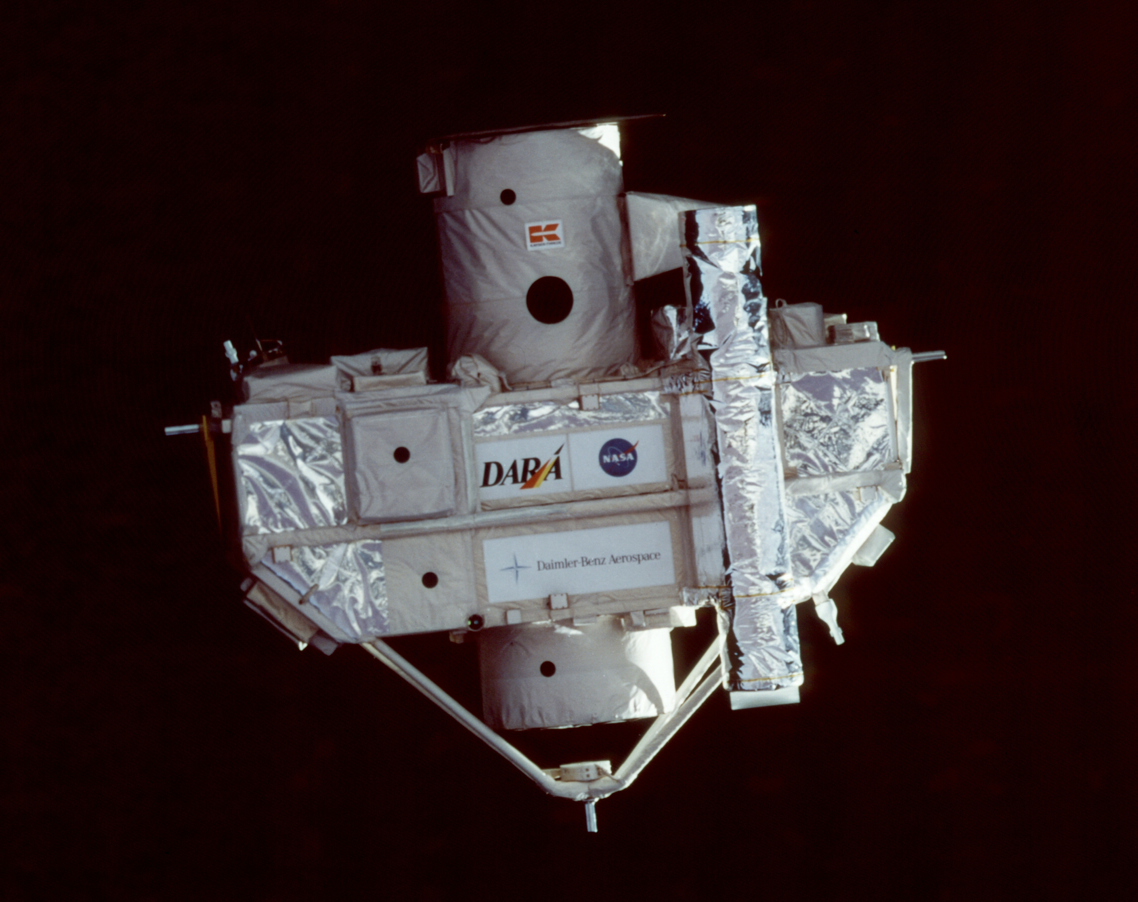 ORFEUS-SPAS II free-flying telescop released by Space Shuttle Columbia on STS-80 (1996) original description: This STS-80 onboard photograph shows the Orbiting Retrievable Far and Extreme Ultraviolet Spectrometer-Shuttle Pallet Satellite II (ORFEUS-SPAS II), photographed during approach by the Space Shuttle Orbiter Columbia for retrieval. Built by the German Space Agency, DARA, the ORFEUS-SPAS II, a free-flying satellite, was dedicated to astronomical observations at very short wavelengths to: investigate the nature of hot stellar atmospheres, investigate the cooling mechanisms of white dwarf stars, determine the nature of accretion disks around collapsed stars, investigate supernova remnants, and investigate the interstellar medium and potential star-forming regions. Some 422 observations of almost 150 astronomical objects were completed, including the Moon, nearby stars, distant Milky Way stars, stars in other galaxies, active galaxies, and quasar 3C273. The STS-80 mission was launched November 19, 1996.